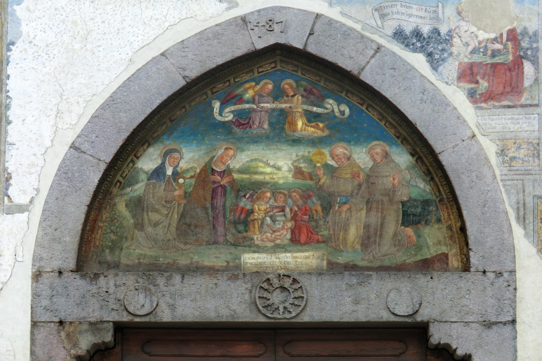 Sant'Anna (Clusone) Native nameChiesa di Sant'AnnaLocationClusone, Lombardy, ItalyCoordinates45° 53′ 24.75″ N, 9° 56′ 58.18″ E Established1414Authority control : Q25410025 institution QS:P195,Q25410025